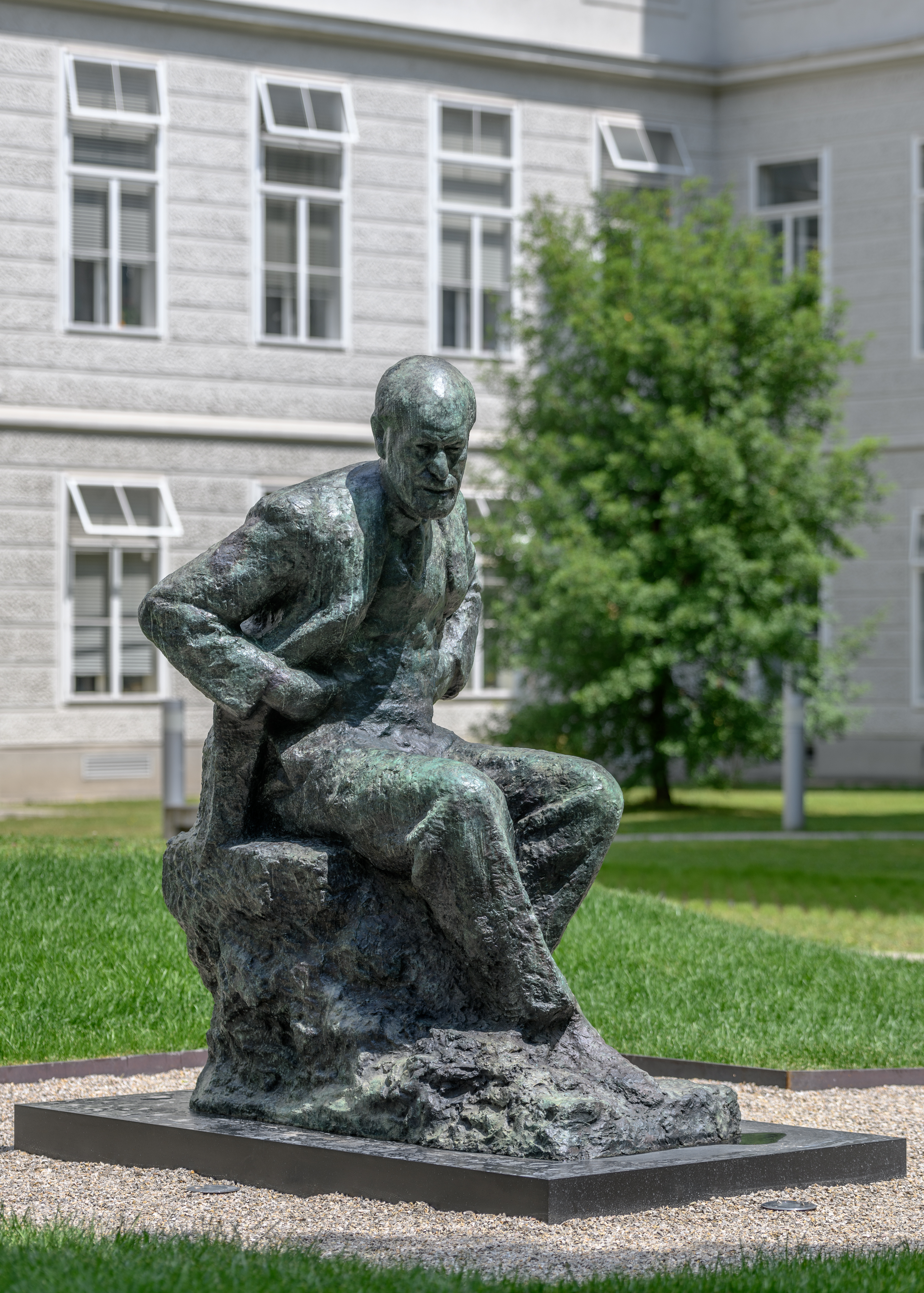 Statue Sigmund Freud, created in the 1930s by Artist Oscar Nemon in a small version of about 60cm in height. Later he made a large version and this is a second molding made in bronze and set up on June 4th 2018 at the Medical University of Vienna